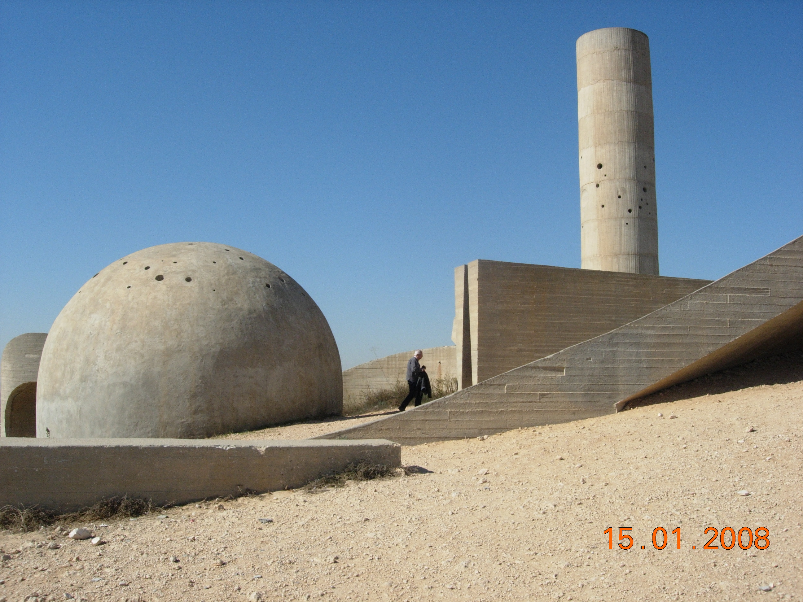 Monument_to_the_Negev_Brigade10